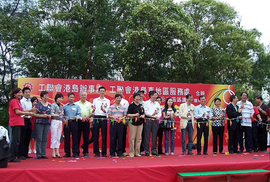 香港工會聯合會（英文：Hong Kong Federation of Trade Unions），簡稱工聯會（HKFTU）- 香港島東在同樂日大會上